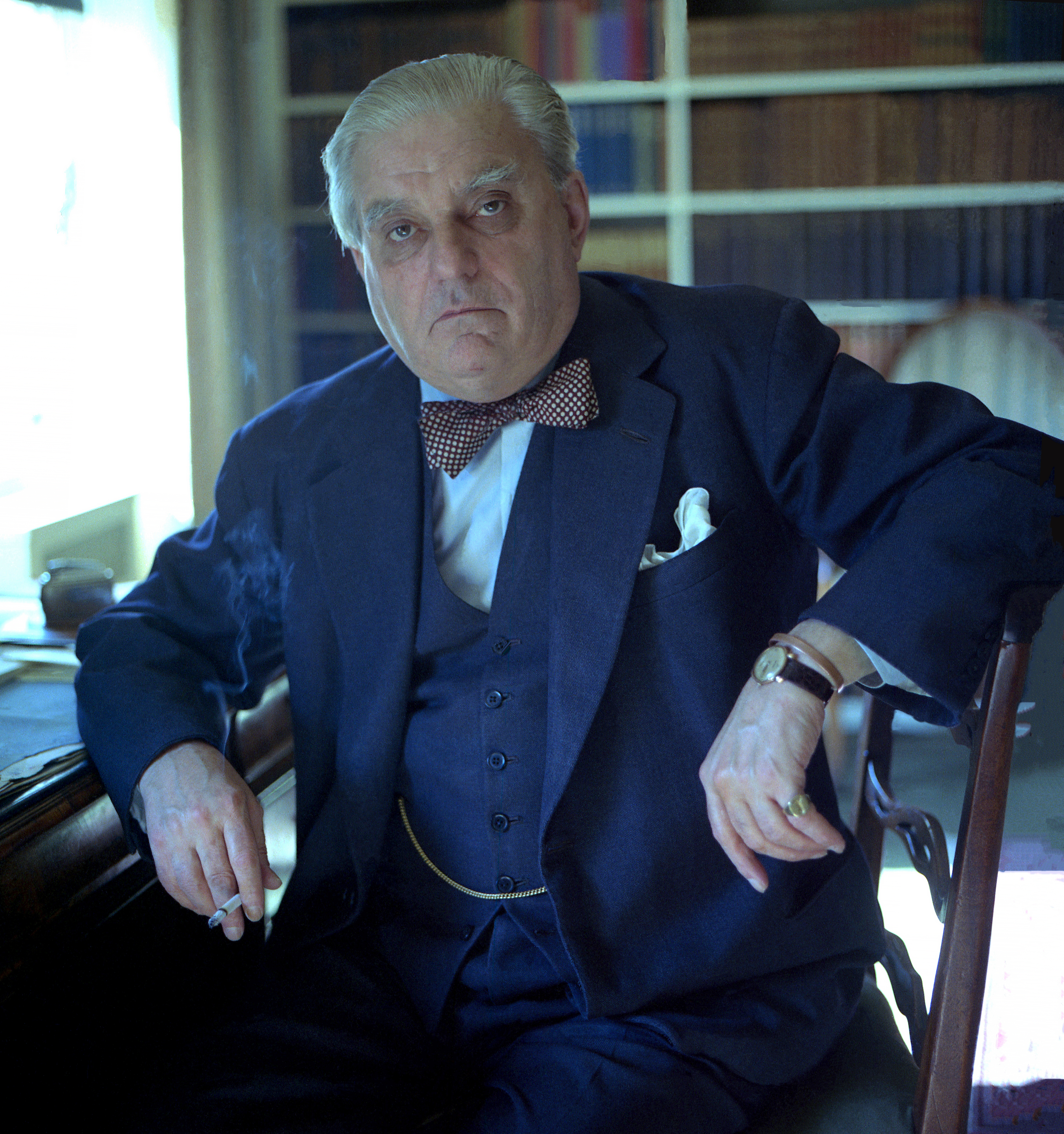 portrait of Lord Boothby